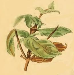 Stainton’s Natural History of the Tineina (1855–1873): Sorhagenia rhamniella a shoot of buckthorn drooping from larval feeding